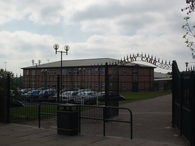 Balby Carr Sports College. One of the new specialist colleges for secondary education.